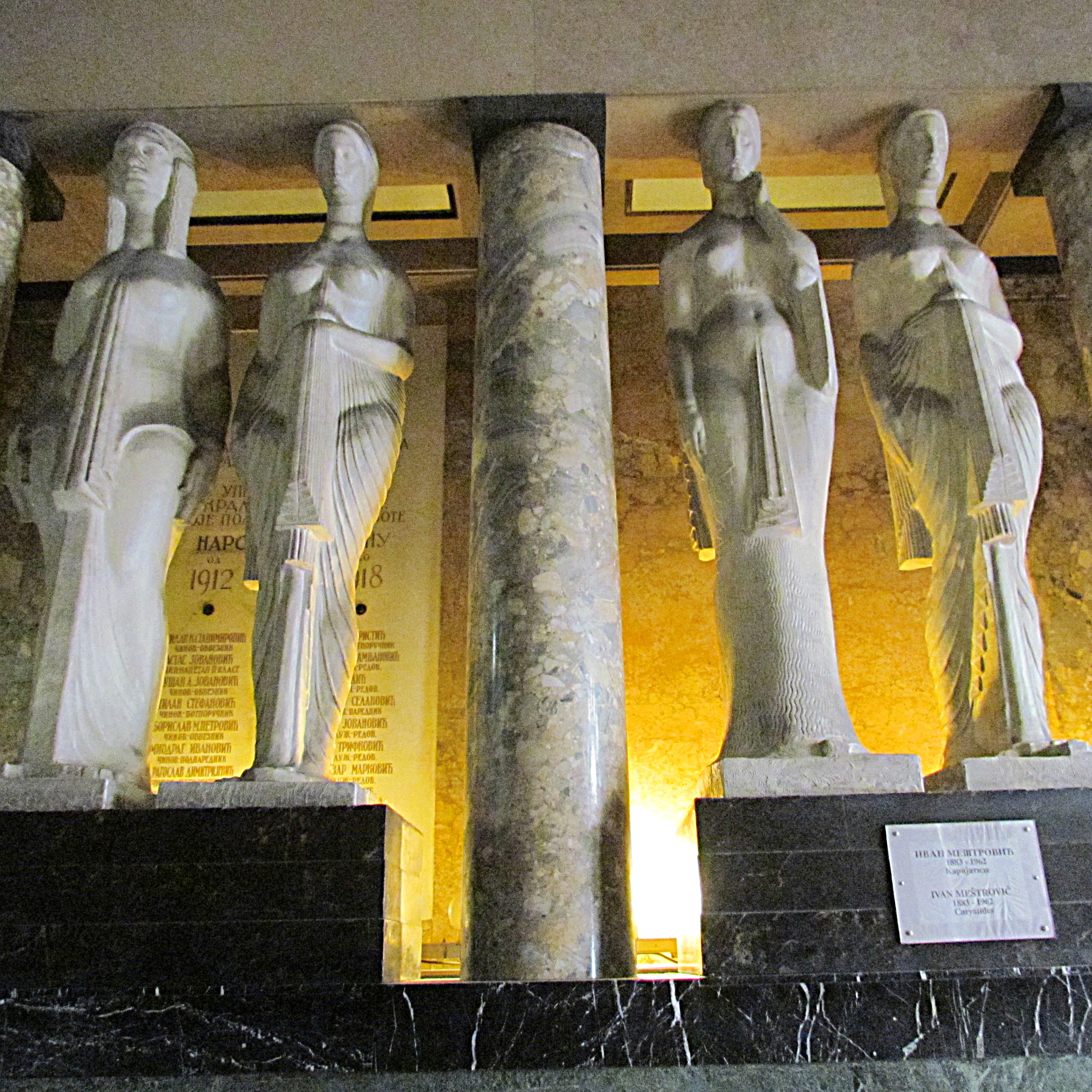 Caryatids by Ivan Meštrović